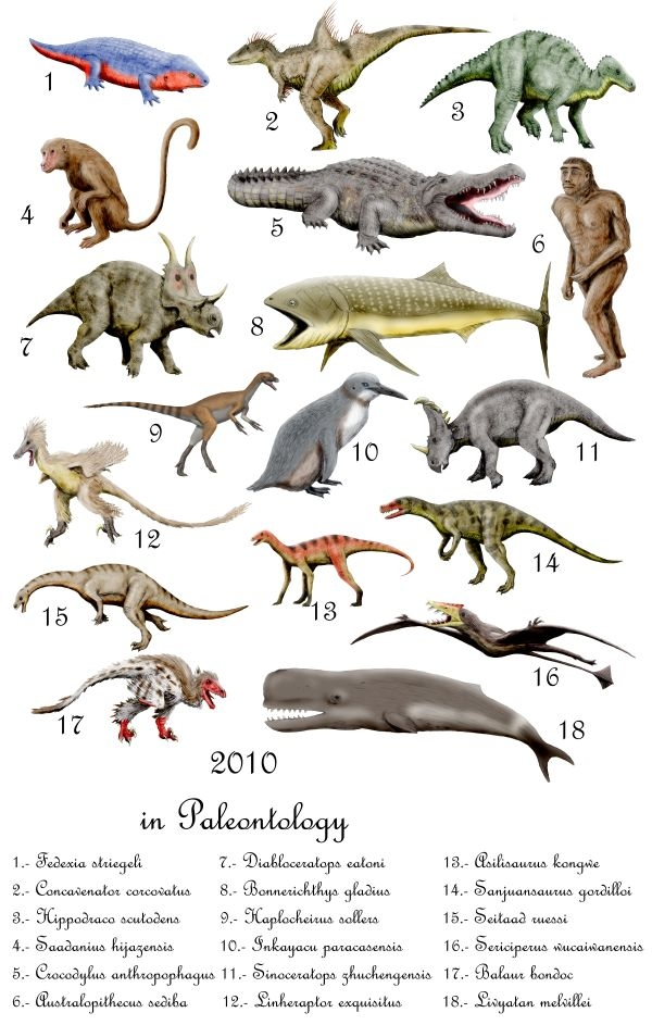 2010 in Paleontology